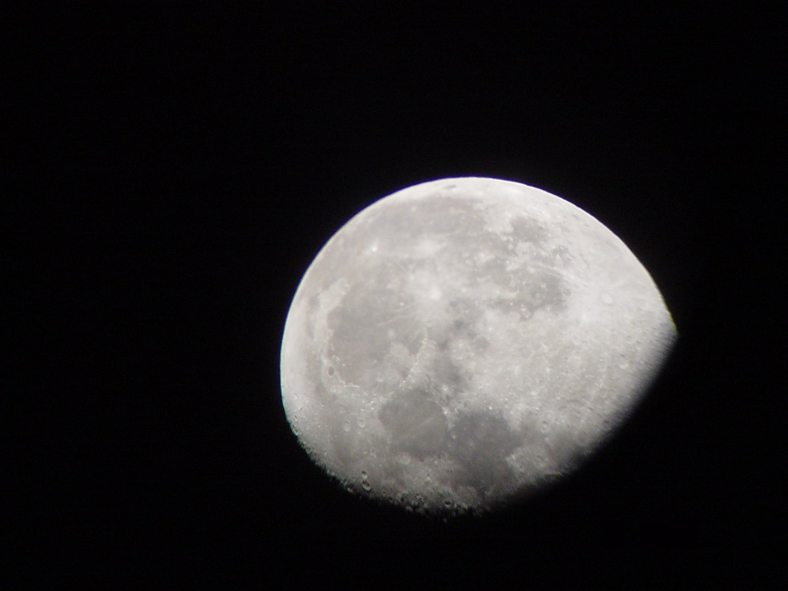 Moon viewed through a 60mm Refractor at 42x magnification